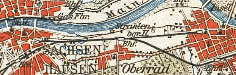 Frankfurt region, 1893: Frankfurt and Offenbach Local Railway. The line was opened in 1847 and abandoned in 1955. The red dotted line on the road between both cities is the line of Frankfurt and Offenbach Tramway Society, one of the first electric tramway lines in the world.